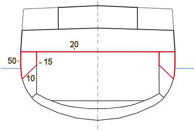 Cross-section sketch of Königsberg class German cruisers (armour in red, thickness in mm). Own work (not a scale drawing, but proportions are generally kept). Based upon: Владимир Кофман "Германские легкие крейсера Второй Мировой войны" book